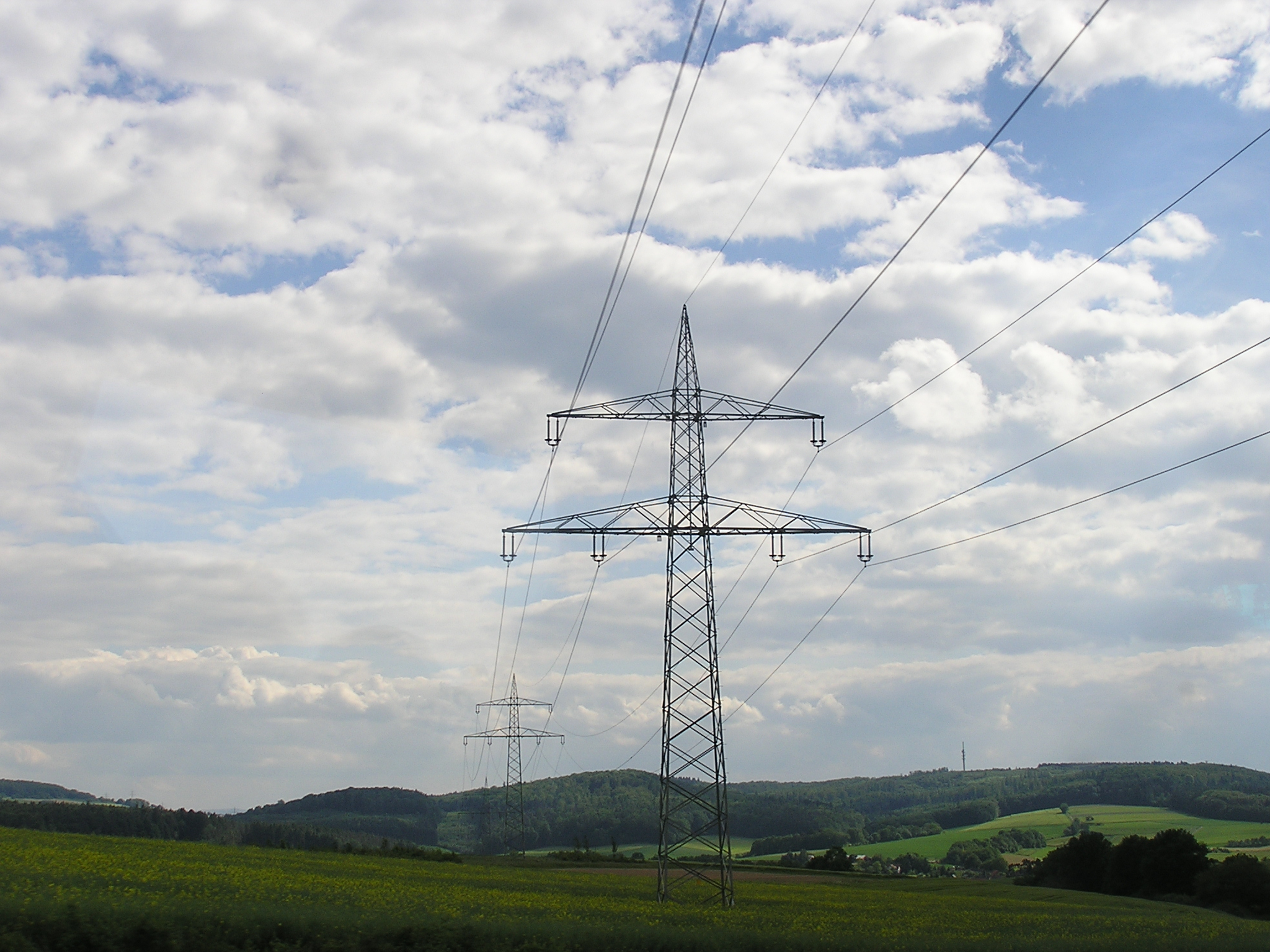 Two-level pylon (Donaumast)